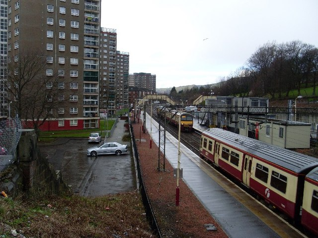 Looking to Dalmuir Station